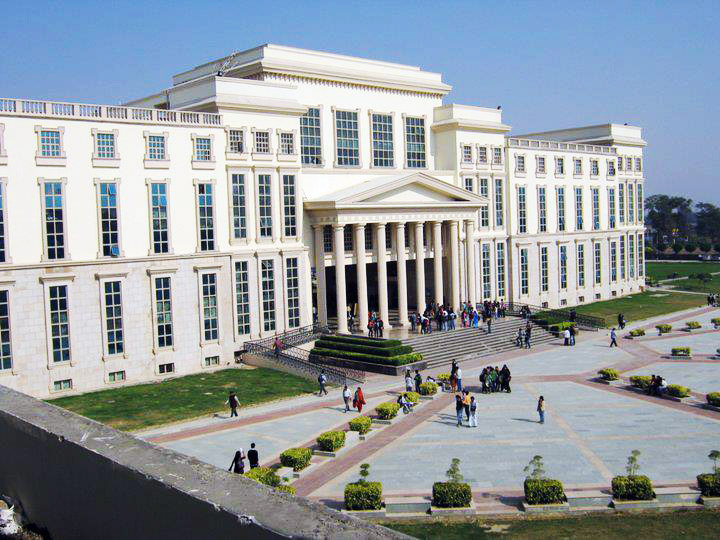 Amity University Lucknow Campus, also known as Mango Orchard Campus.